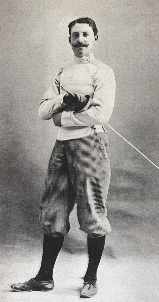 Albert Ayat winner at the 1900 Olympic Games photography, reproduction, no restrictions on use